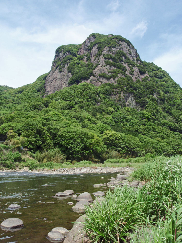 Joyama (Mount Jo) as seen from southeast in Izunokuni, Shizuoka Prefecture, Honshu, Japan. Kano River in the foreground.